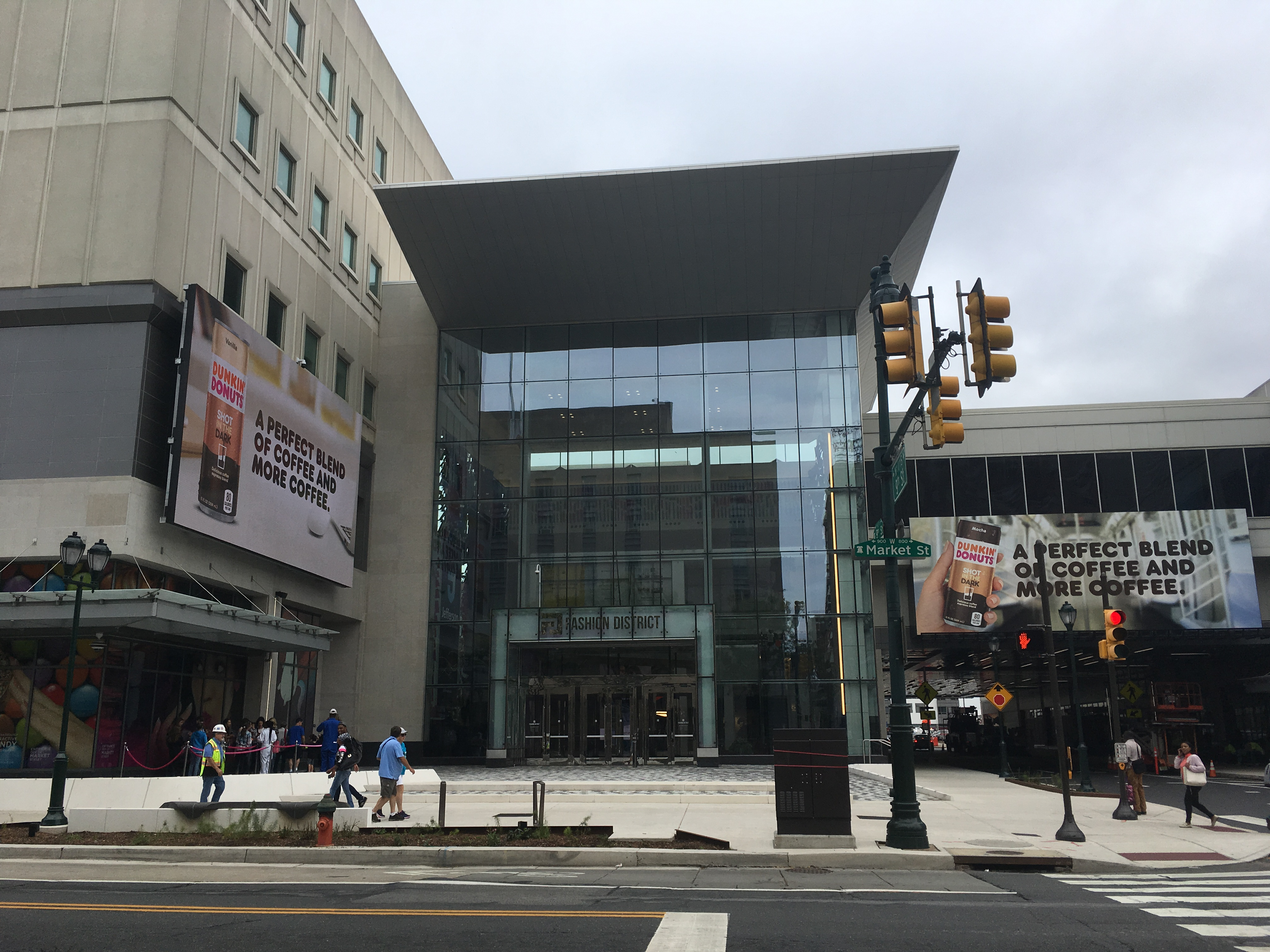 The entrance to the Fashion District Philadelphia shopping mall at 9th Street and Market Street in Philadelphia, Pennsylvania